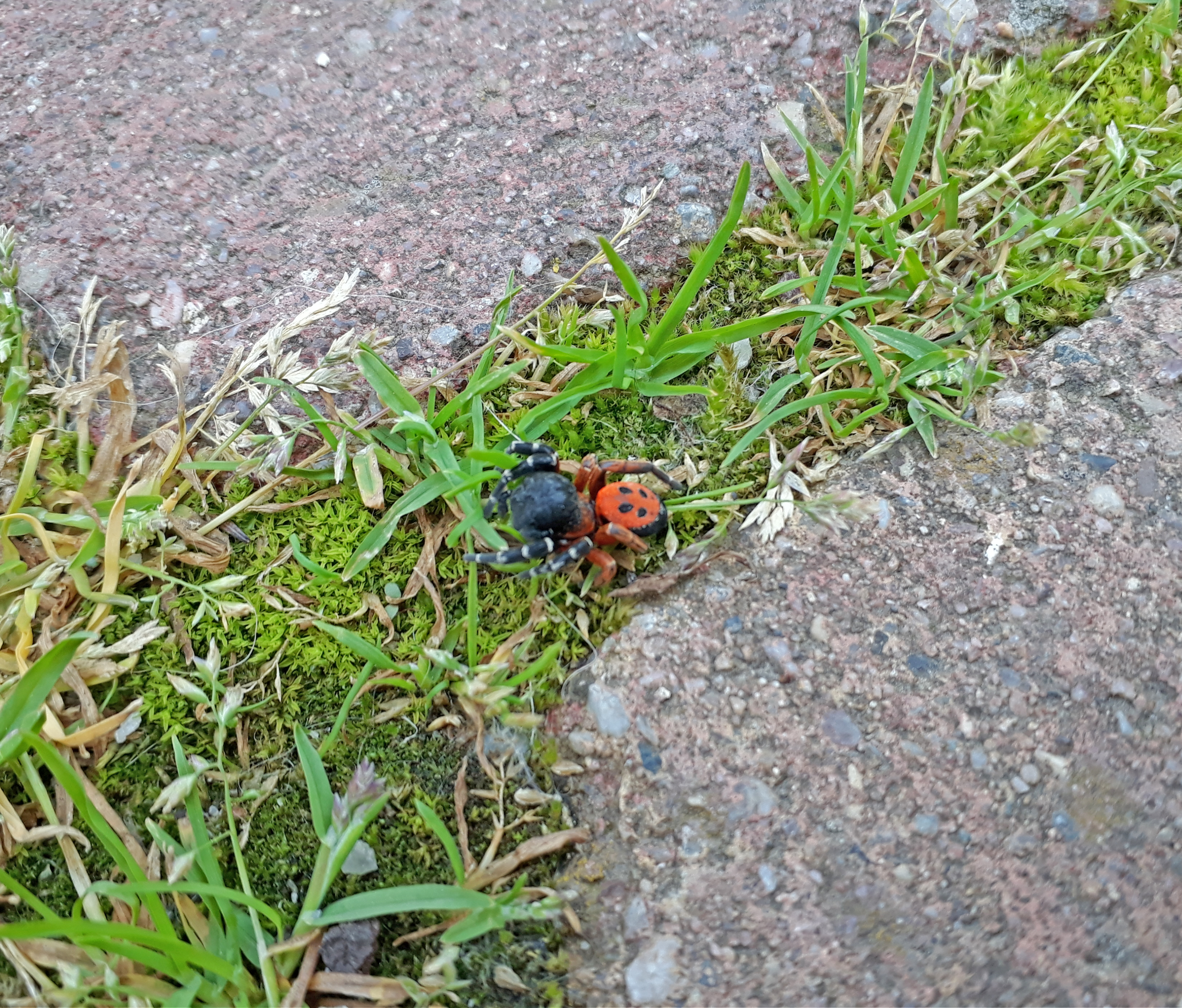 Eresus moravicus